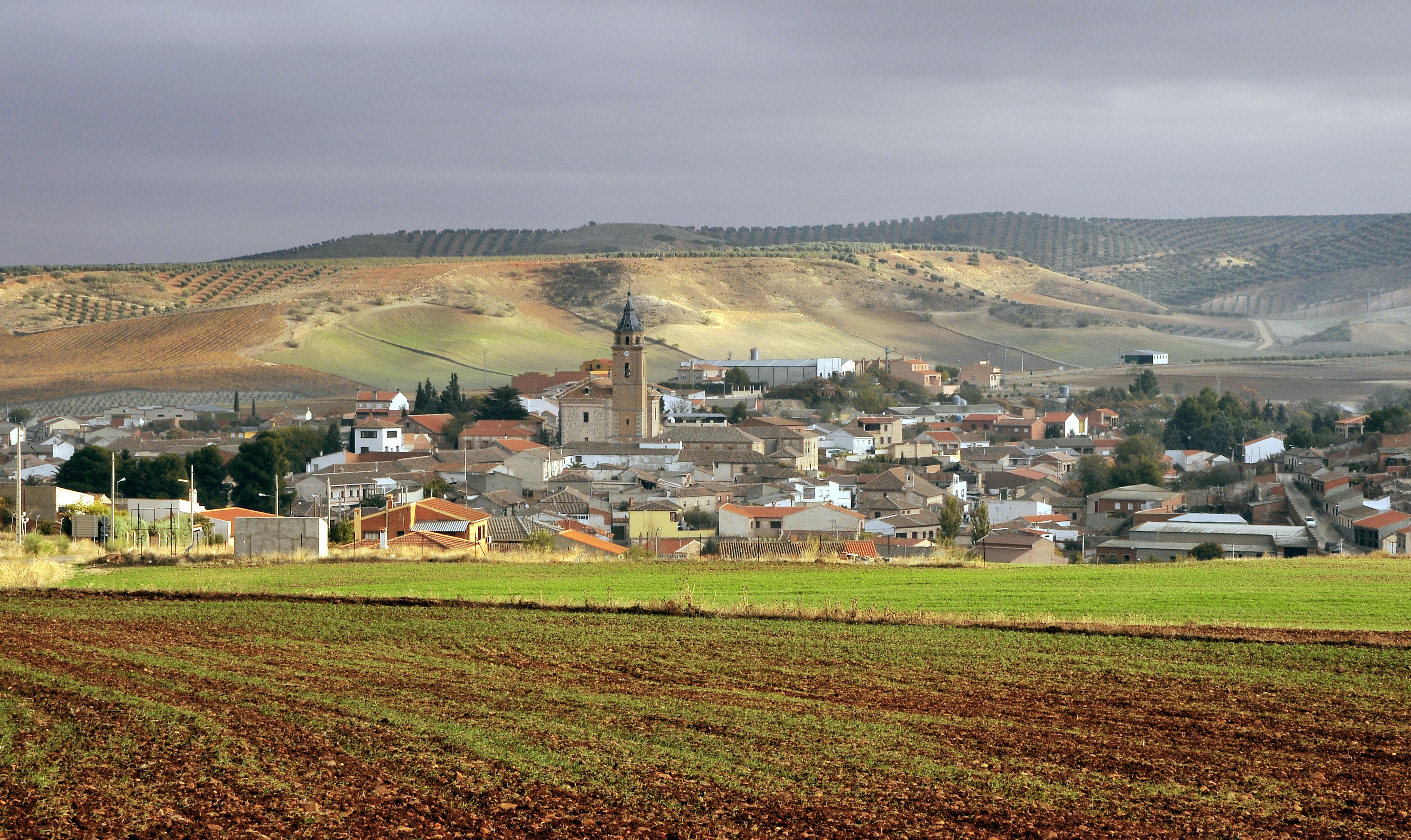 The village and its surroundings. San Martín de Pusa, Toledo, Castile-La Mancha, Spain